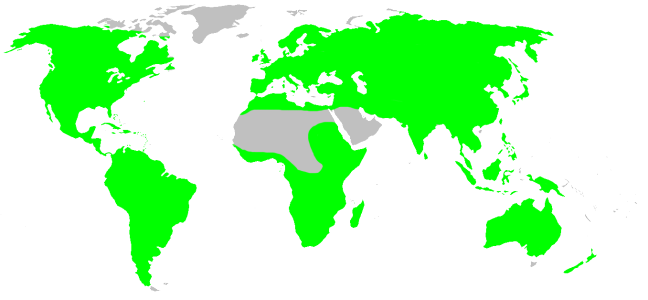 Uloboridae habitat distribution, drawn after Platnick: World Spider Catalog 7.0. This is not a precise rendering of the distribution! If you have better information, please replace this map, or send me the info, and i will redraw it.